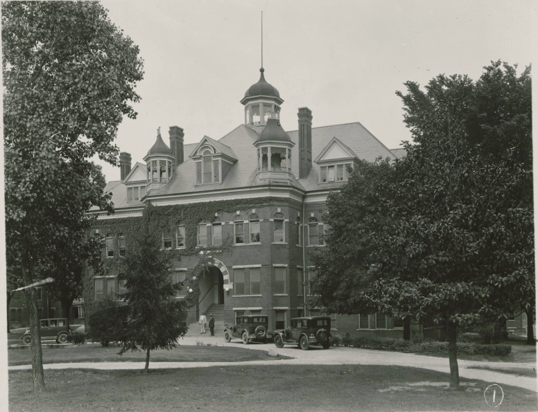 The Dudley Administrative Building on the Campus of the Negro Agricultural and Technical College of North Carolina, now North Carolina Agricultural and Technical State University; 1926